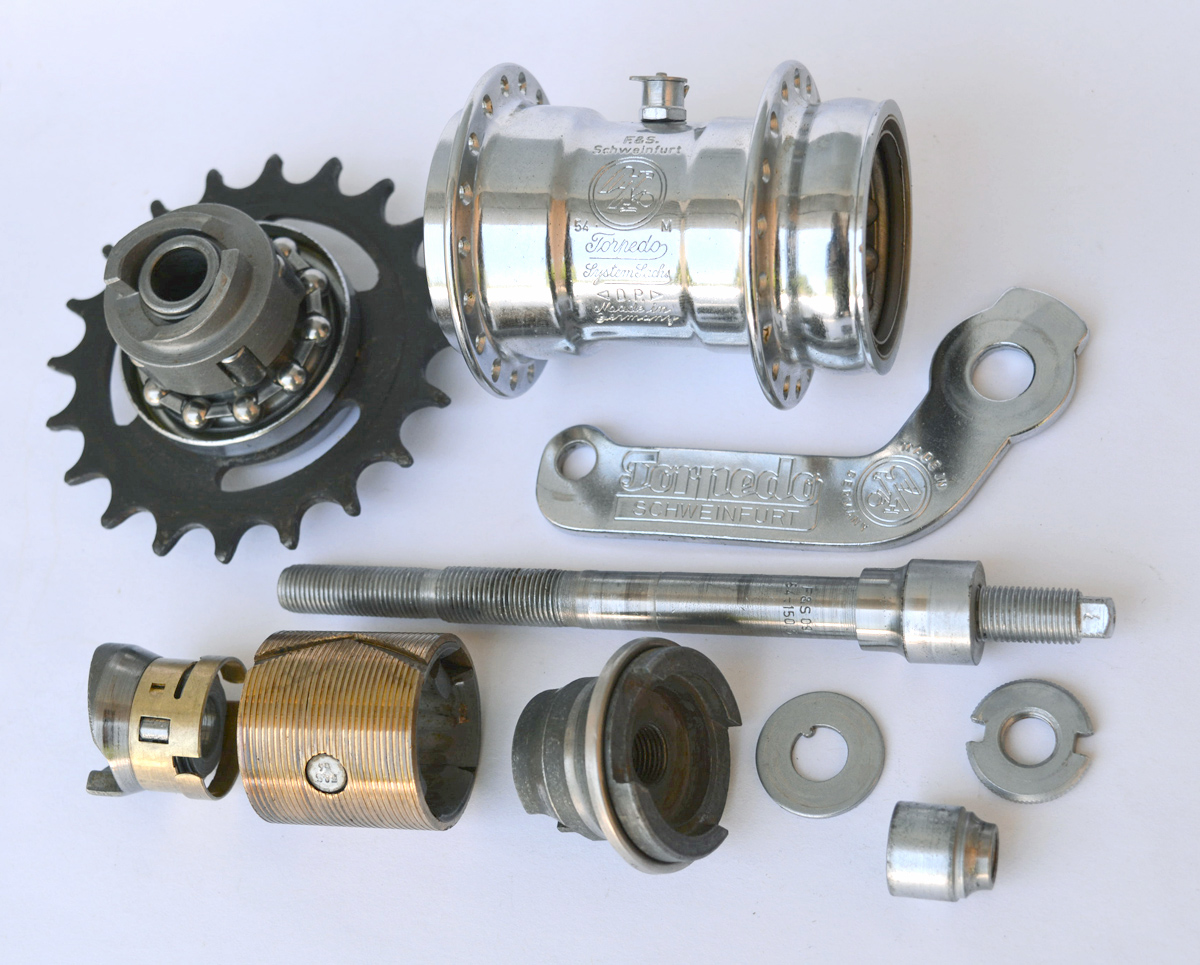 Fichtel & Sachs Torpedo Freilaufnabe 1954